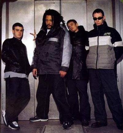 Escape from Planet Monday